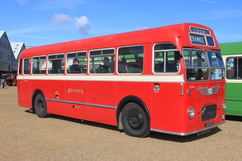 A preserved Red & White Services bus visiting Chatham Historic Dockyard, Kent, in 2013. The bus is a 1967 Bristol MW with Eastern Coach Works body, registration mark JAX 117E, fleet number U1766.